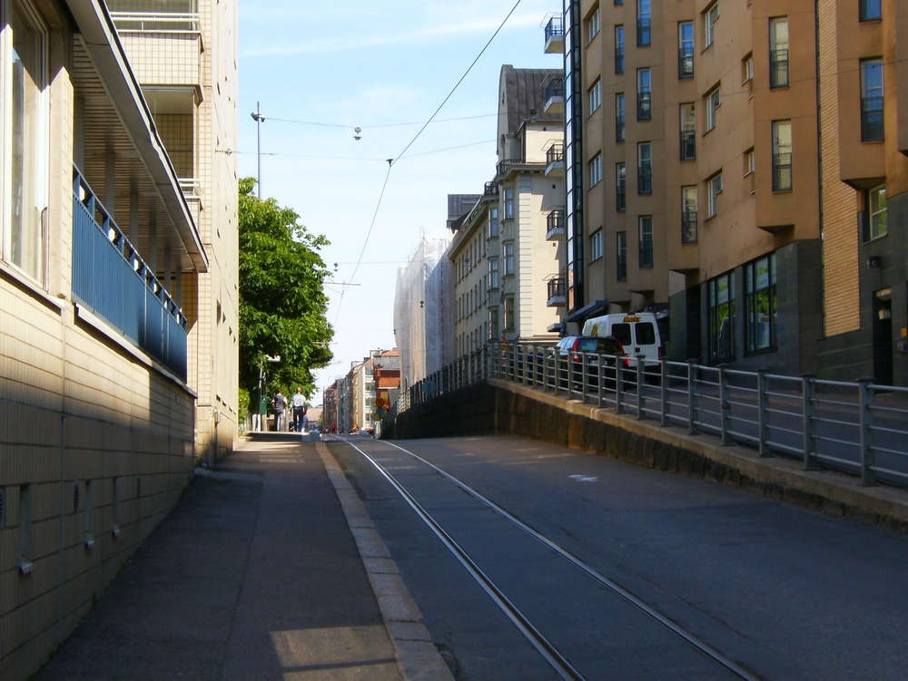 The south-western section of the street "Kalevankatu" in Helsinki, Finland